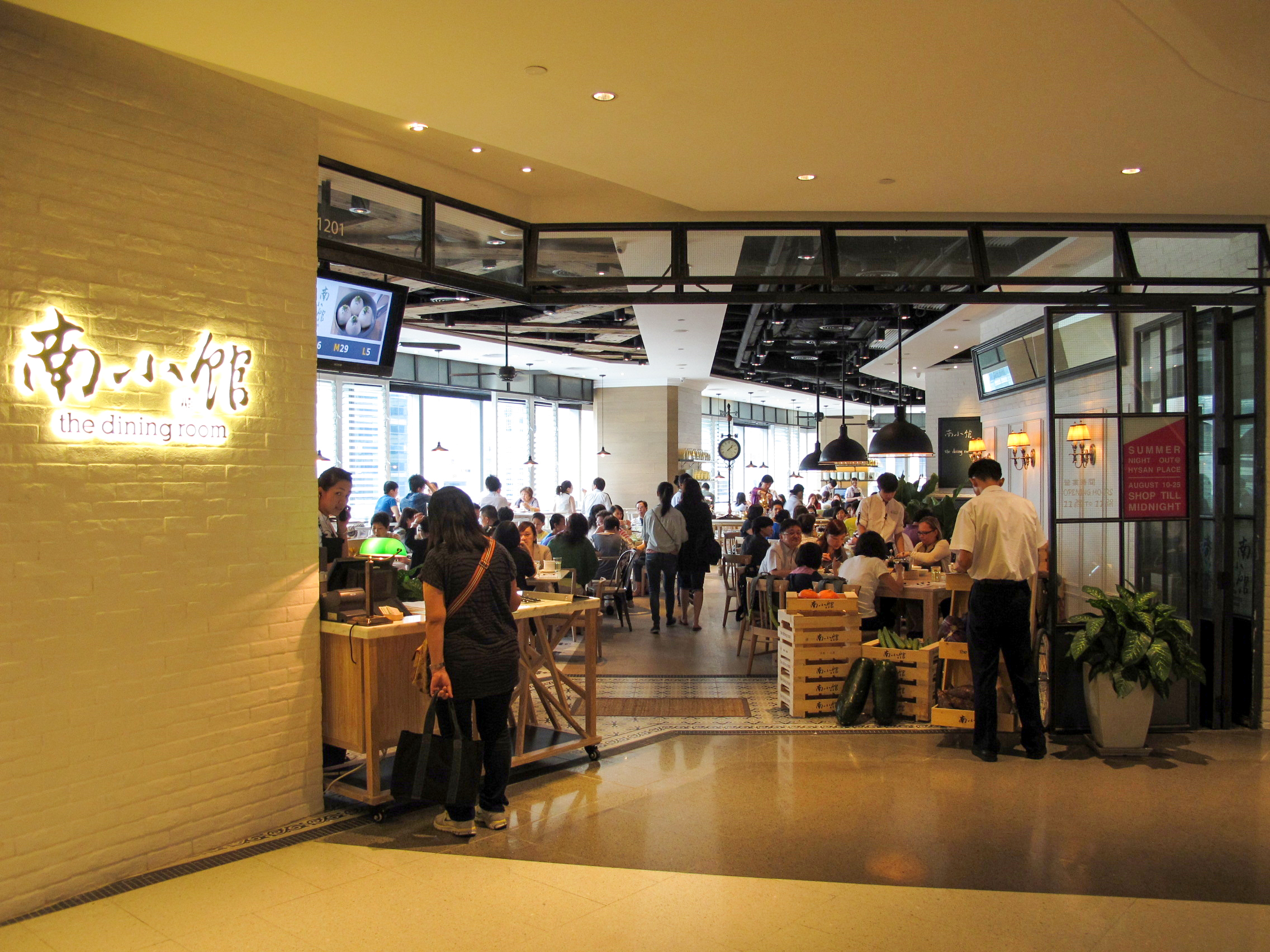 The dining room in Hysan Place